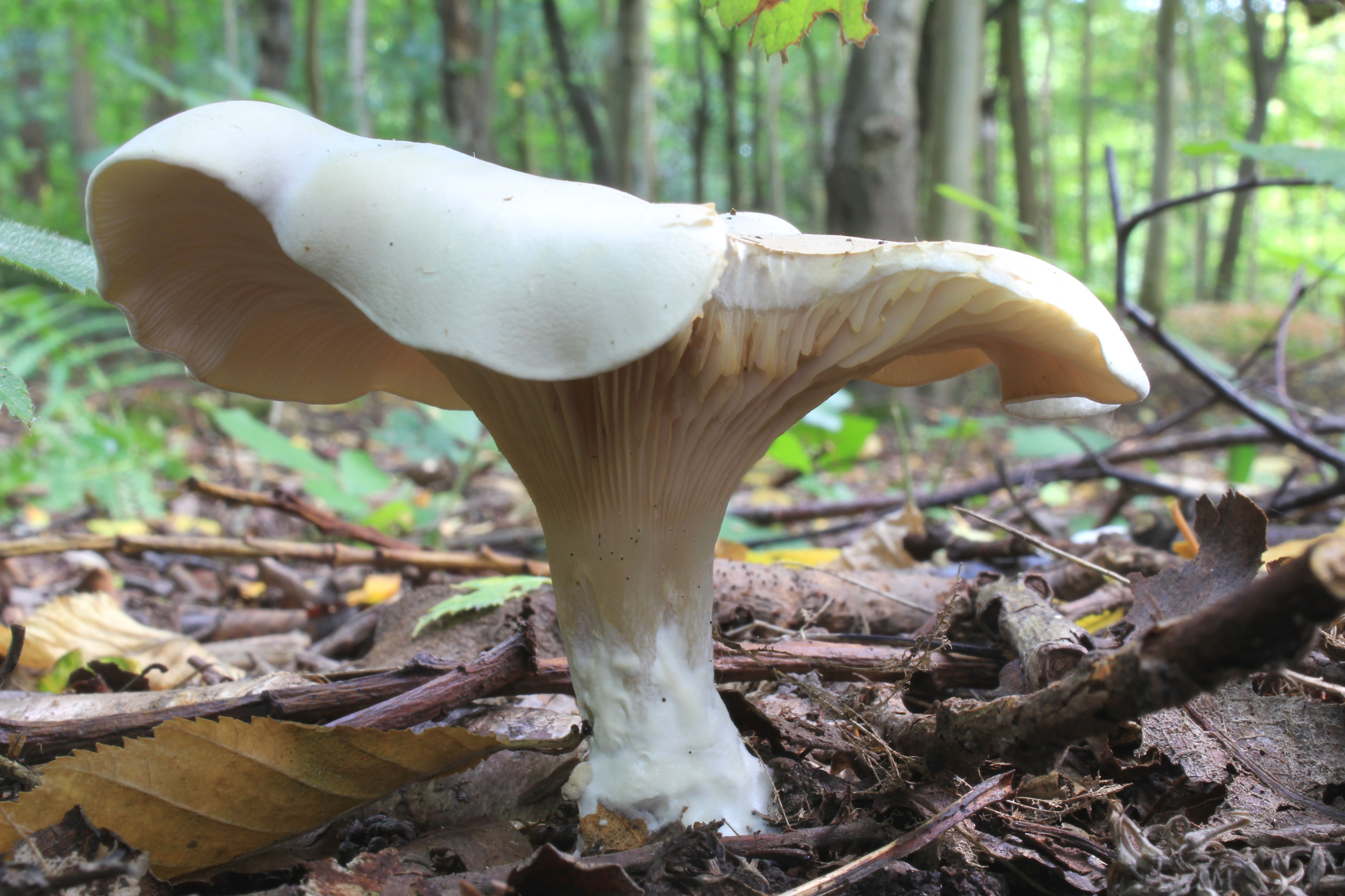 Clitocybe phyllophila, Frosty Funnel, taken in Enfield UK